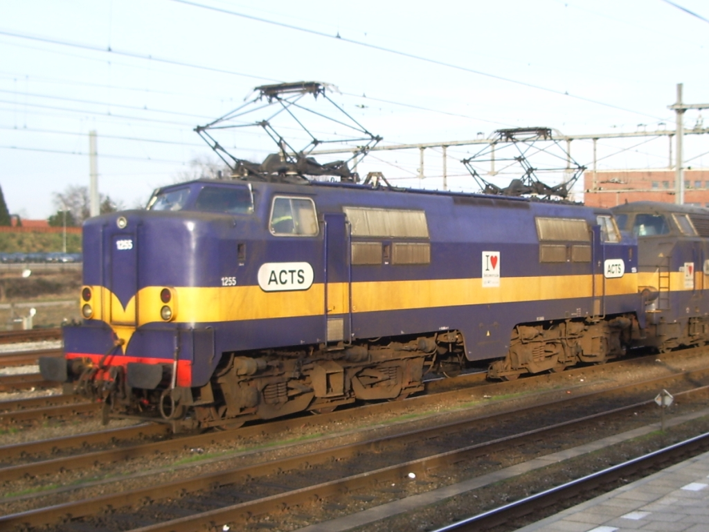 ACTS 1255 (NS 1200 Class) at Amersfoort station, 15 february 2007. ACTS 1255 (NS 1200) te Amersfoort, 15 februari 2007.